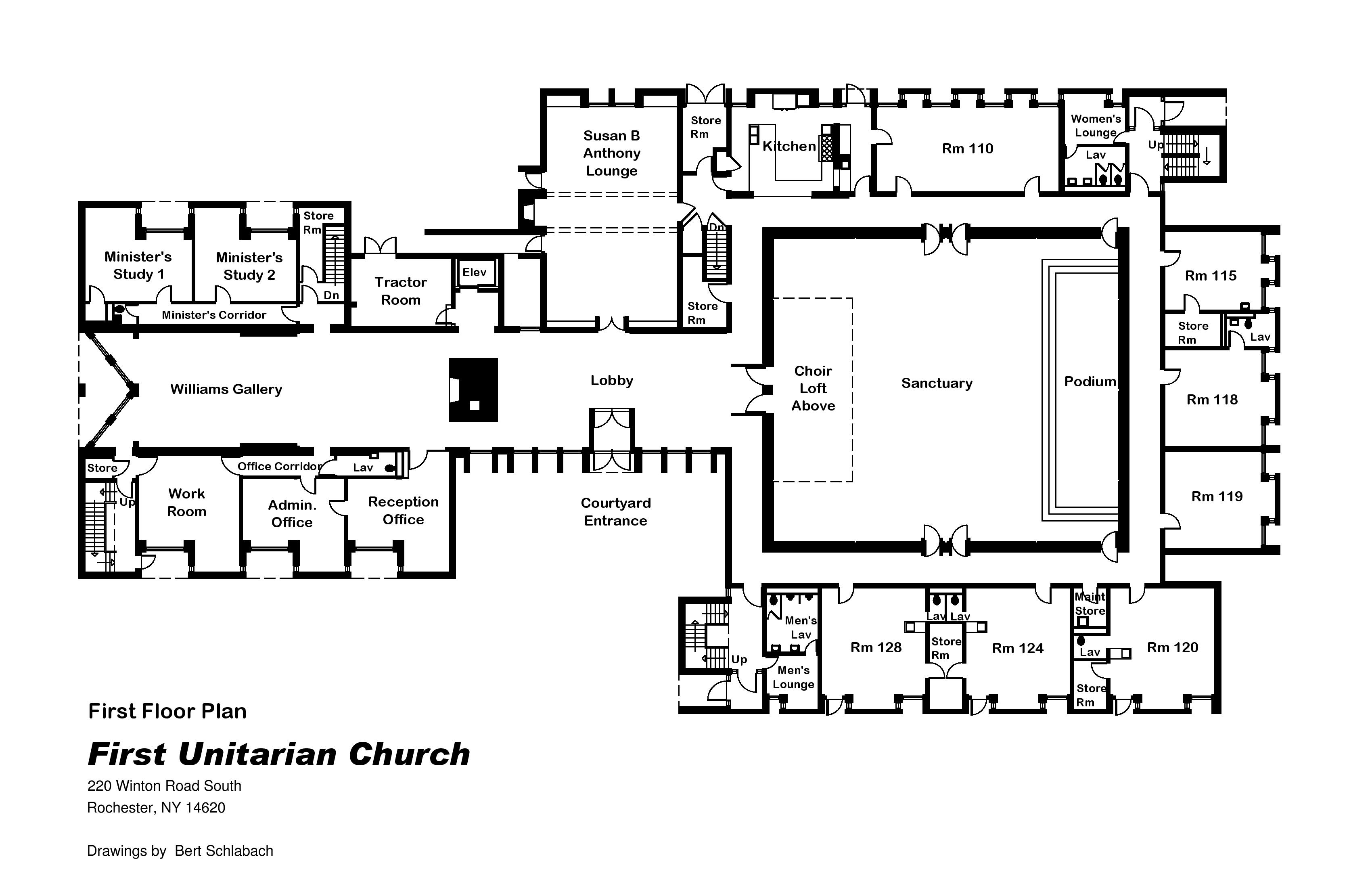 First Unitarian Church of Rochester, NY - 1st Floor Plan. Form and dimension taken from pdfs of original working drawings. Some details are modified for graphic purposes. The north side of the building is at the bottom of the drawing. The Street is to the right of the drawing. The building was built in 3 phases. The sanctuary, classrooms and lobby were completed first in 1962, the Williams Gallery and offices addition was completed in 1969 and years later an elevator addition was built